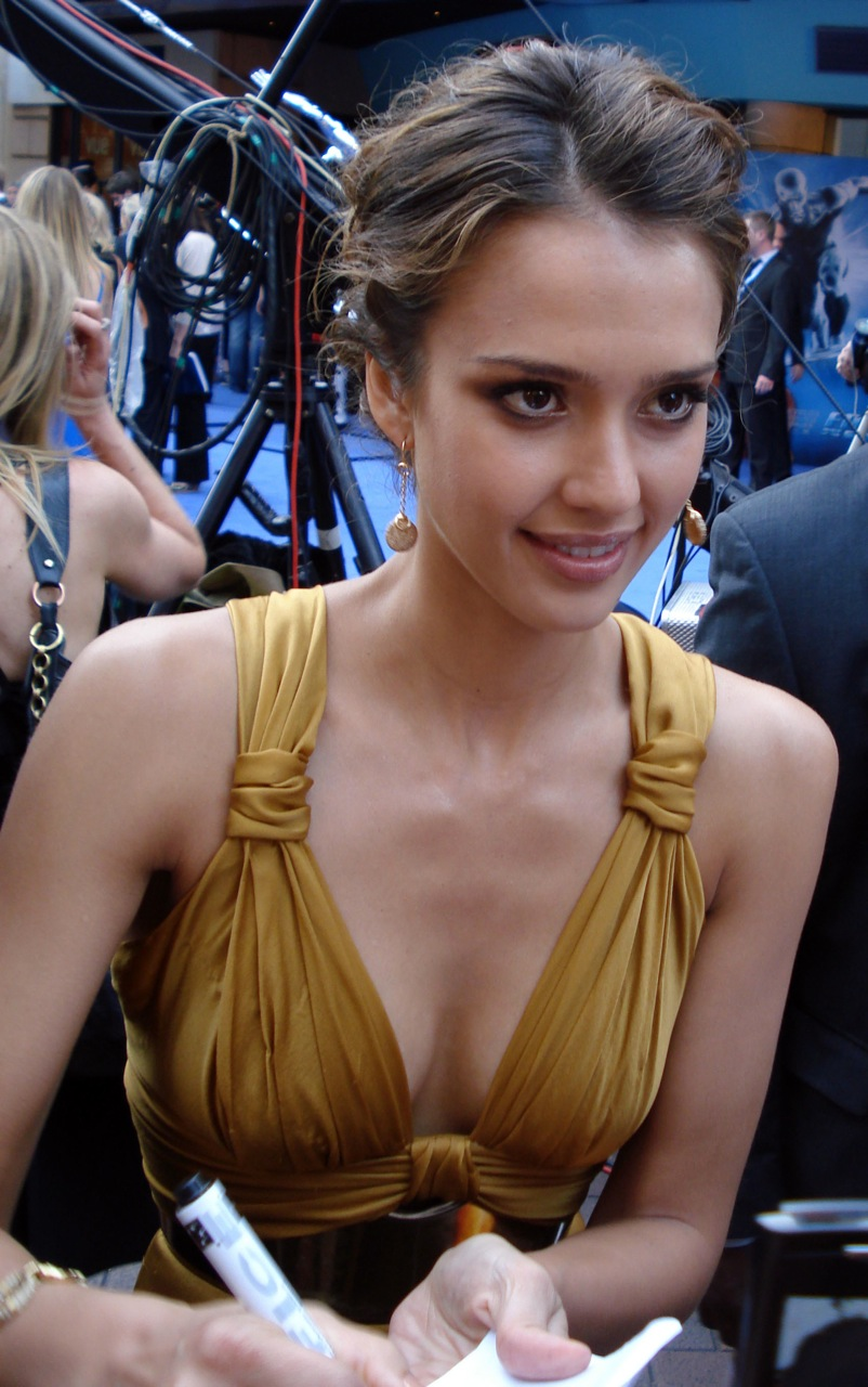 Jessica Alba at the Fantastic Four: Rise of the Silver Surfer premiere in London.